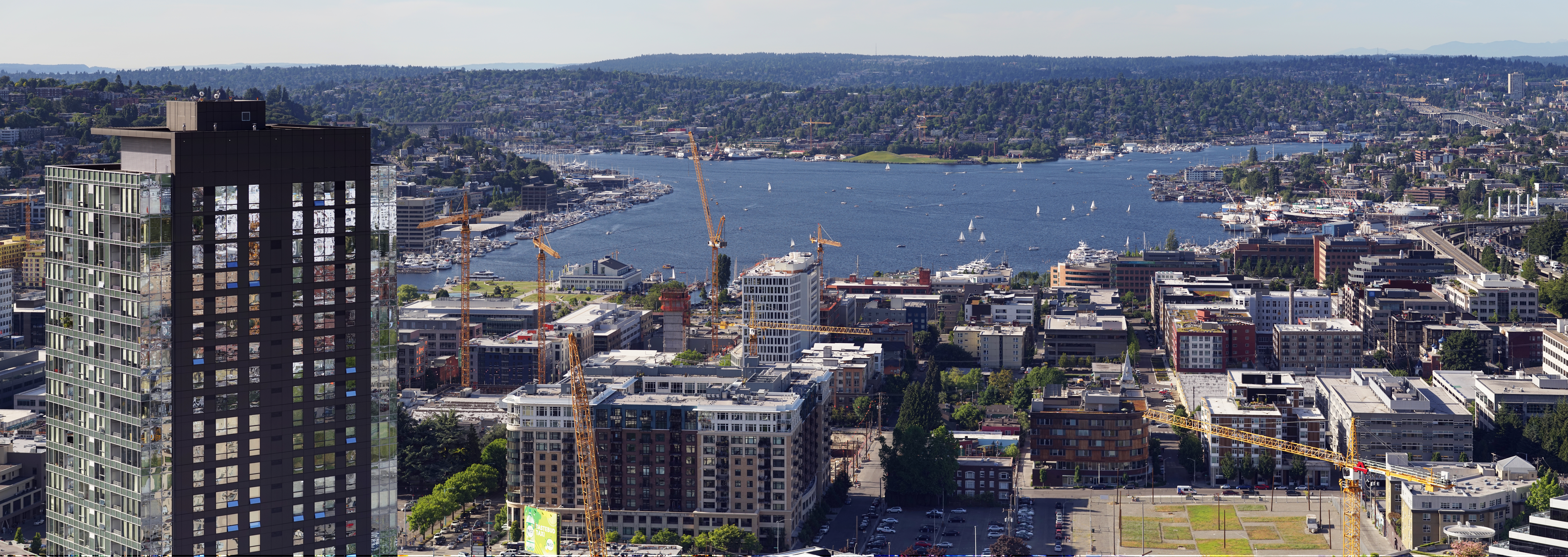 Panorama of Lake Union from the 40th floor of Premiere on Pine, at 1525 9th Ave, Seattle, WA. This is a panorama stitched from five vertical frames, each of which was taken with the Tair 11A 135mm f/2.8 manual focus lens at f/8, 1/400s, ISO 100 using the Sony A7R.